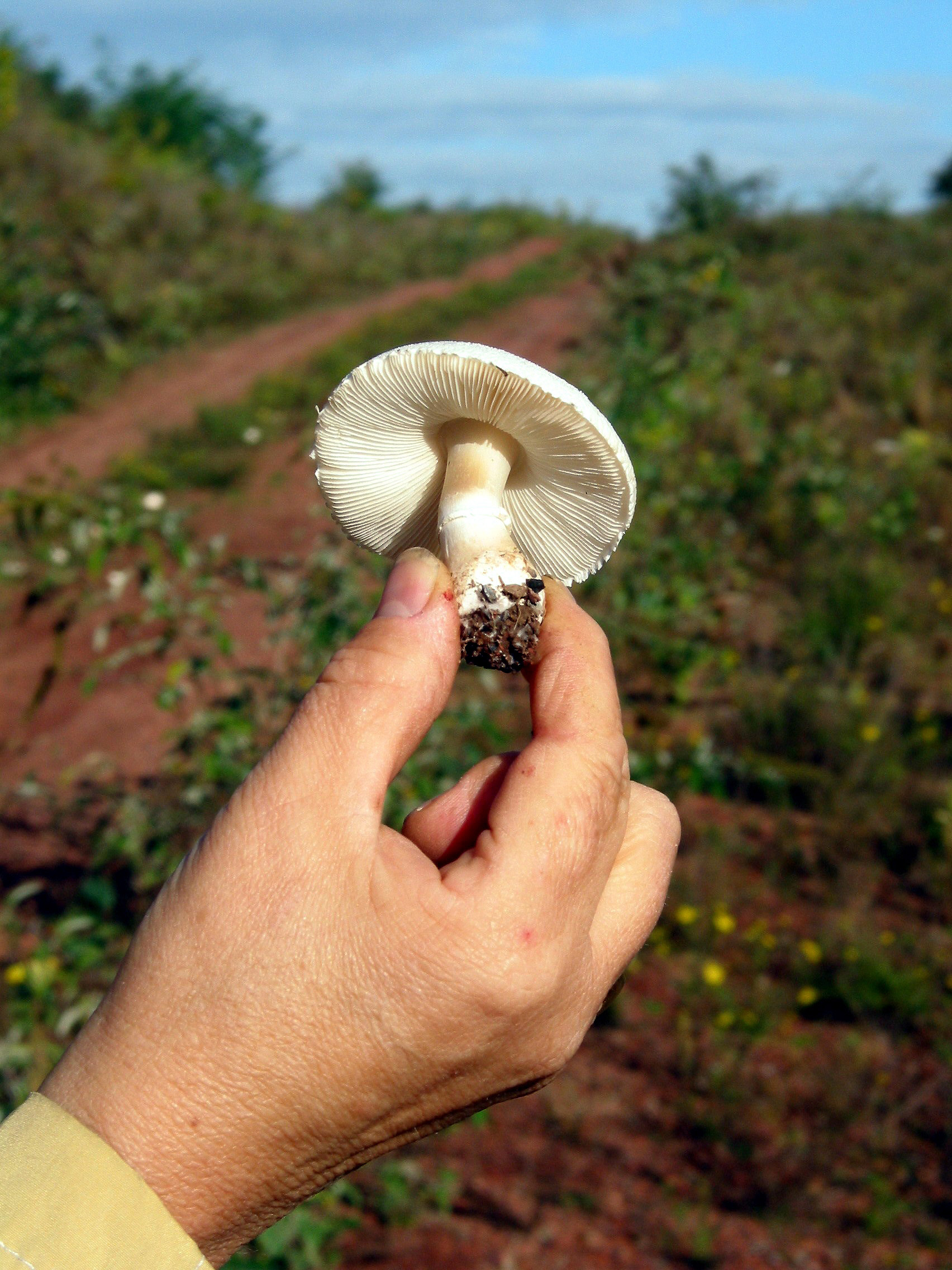 White daperling, smooth lepiota, or smooth Parasol